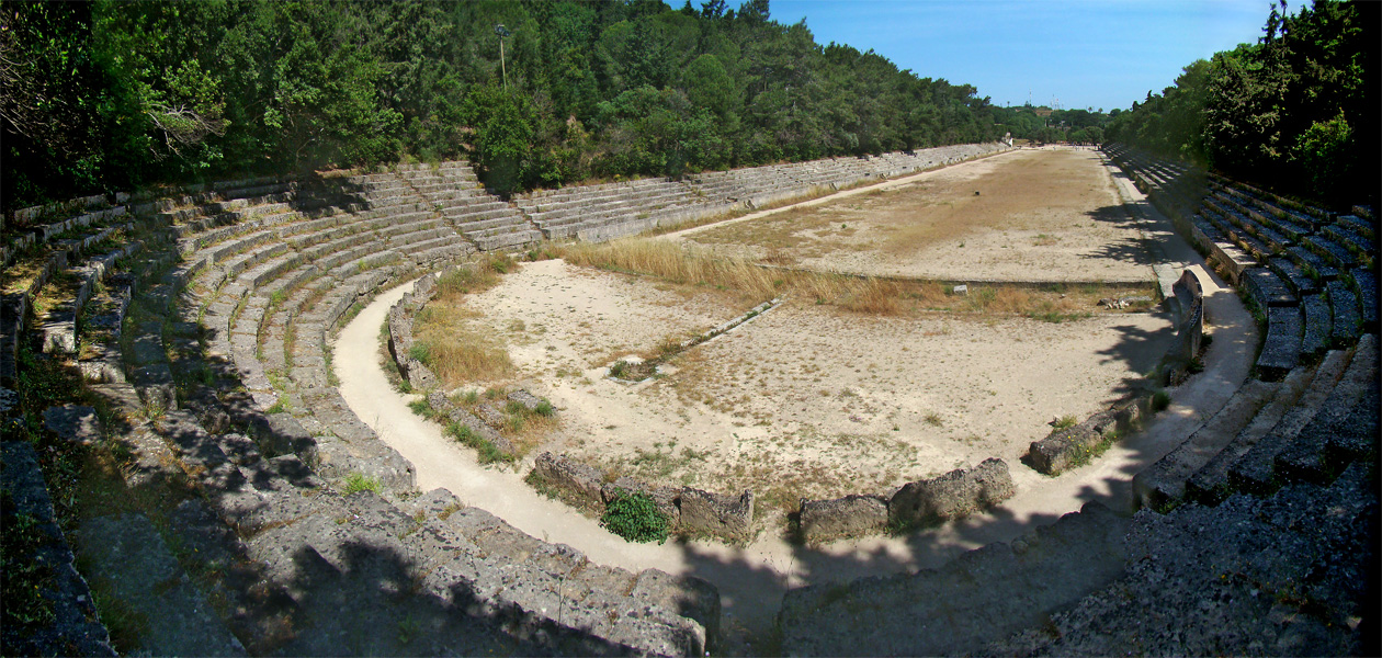 Acropolis, Rhodes, Greece. The stadium.